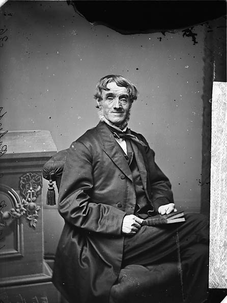 1 negative : glass, wet collodion, b&w ; 11 x 8.5 cm.